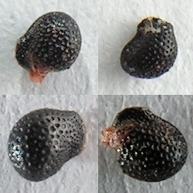 The seeds of Mammillaria prolifera (enlarged). The size of seeds is appr. 0.5 mm × 1 mm.